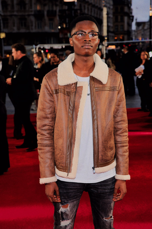 Kellam at Intent Premiere